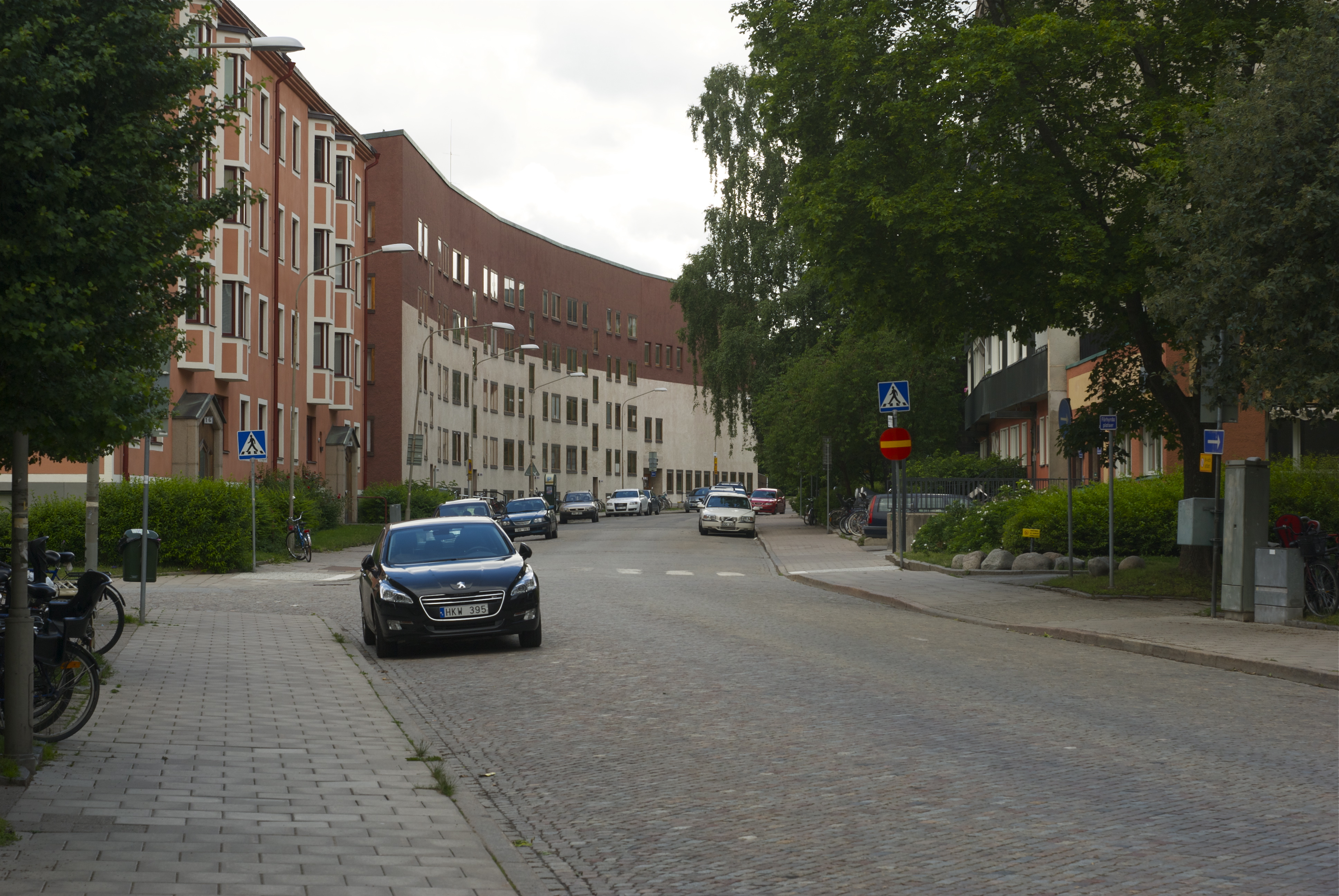 Armfeltsgatan juni 2011